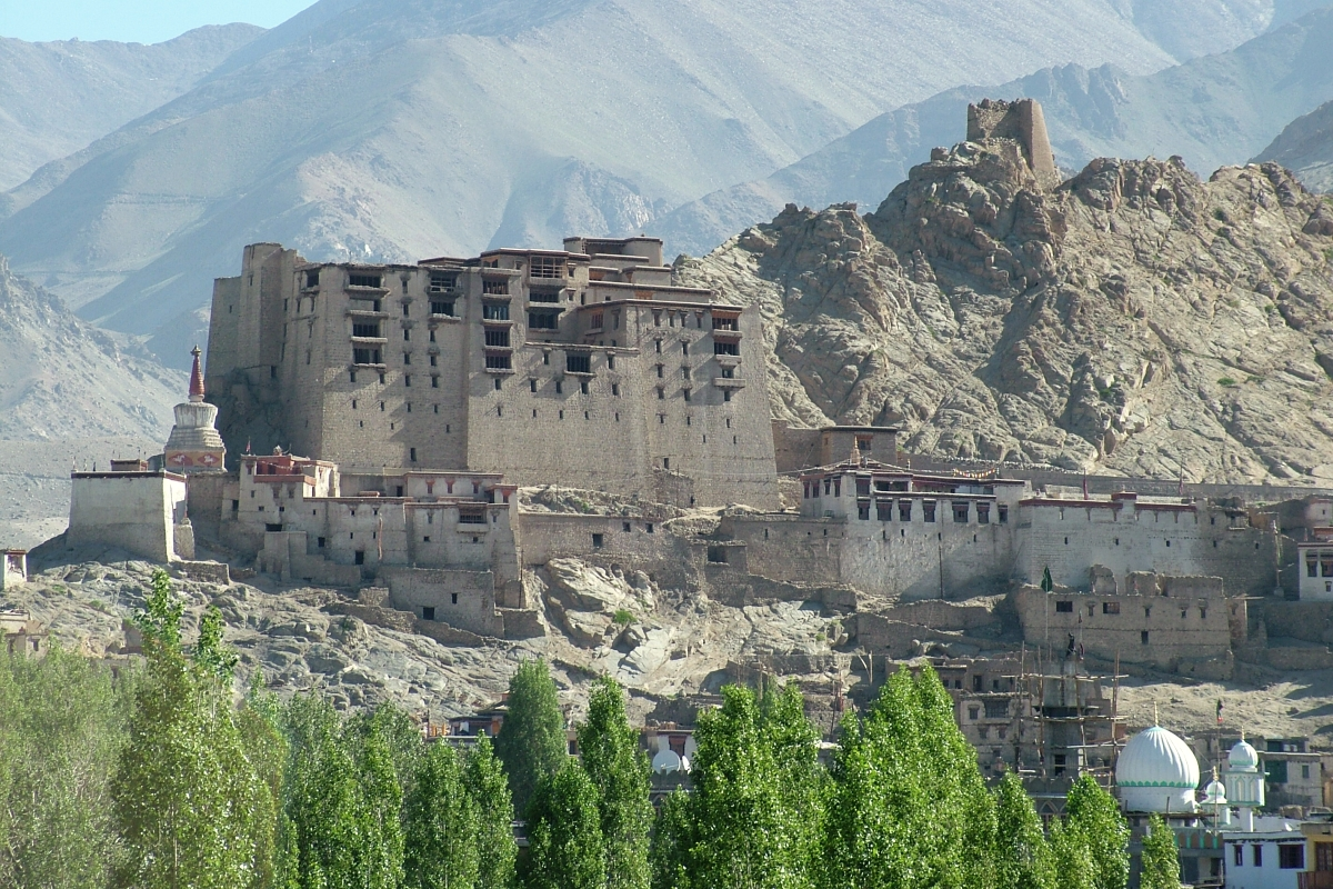 Leh Royal Palace